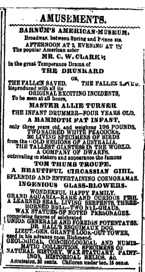 Ad for Barnum's American Museum, New York Times, Jun 23, 1866, p. 7